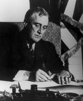 President of the United States Franklin D. Roosevelt signing the Bonneville Project Act (chap. 720, 50 Stat. 731): see About BPA: A History of Service. Bonneville Power Administration. Archived from the original on 24 June 2008. Retrieved on 12 January 2011.